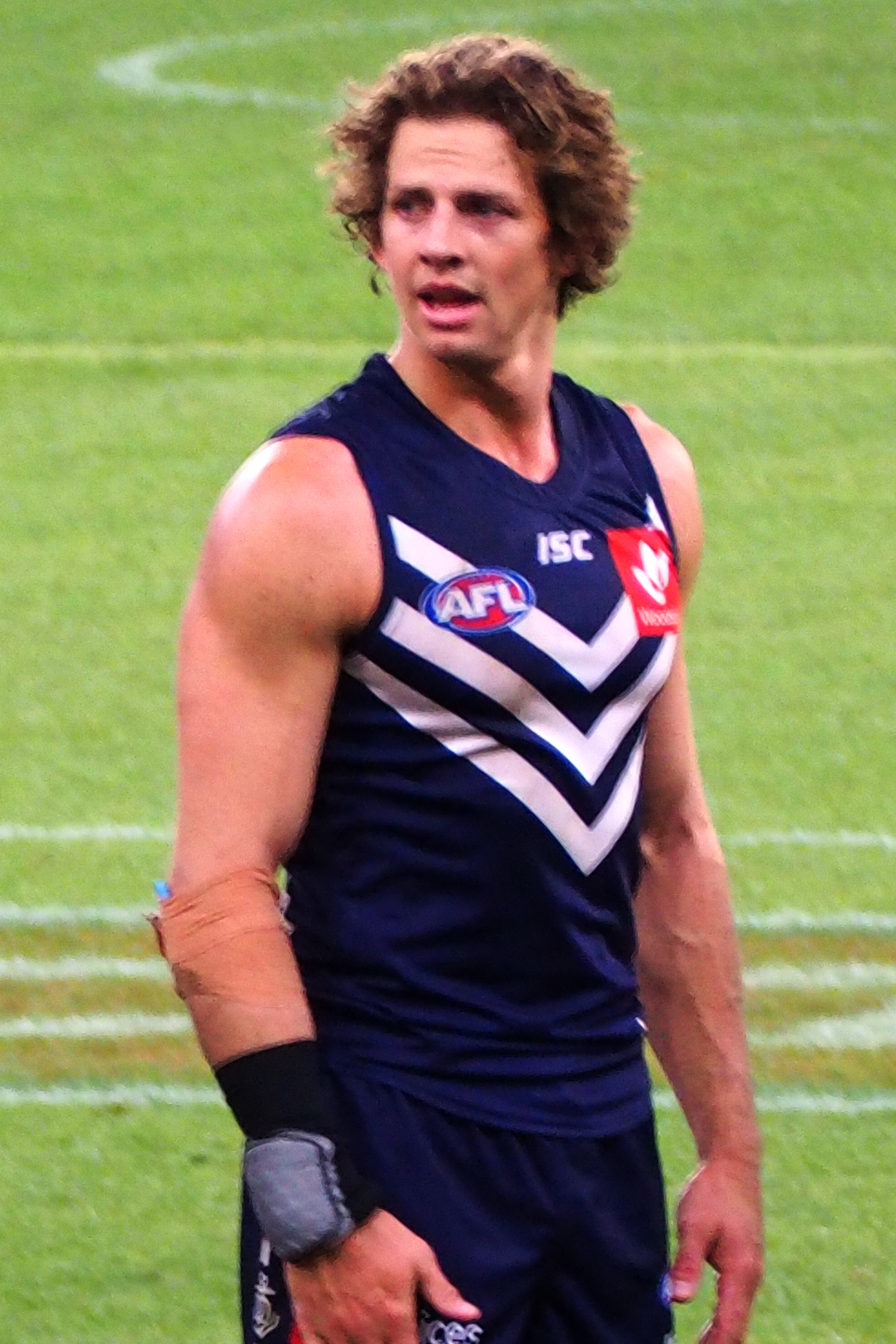 Nathan Fyfe playing for Fremantle Football Club at Optus Stadium, Round 6, 27 April 2019